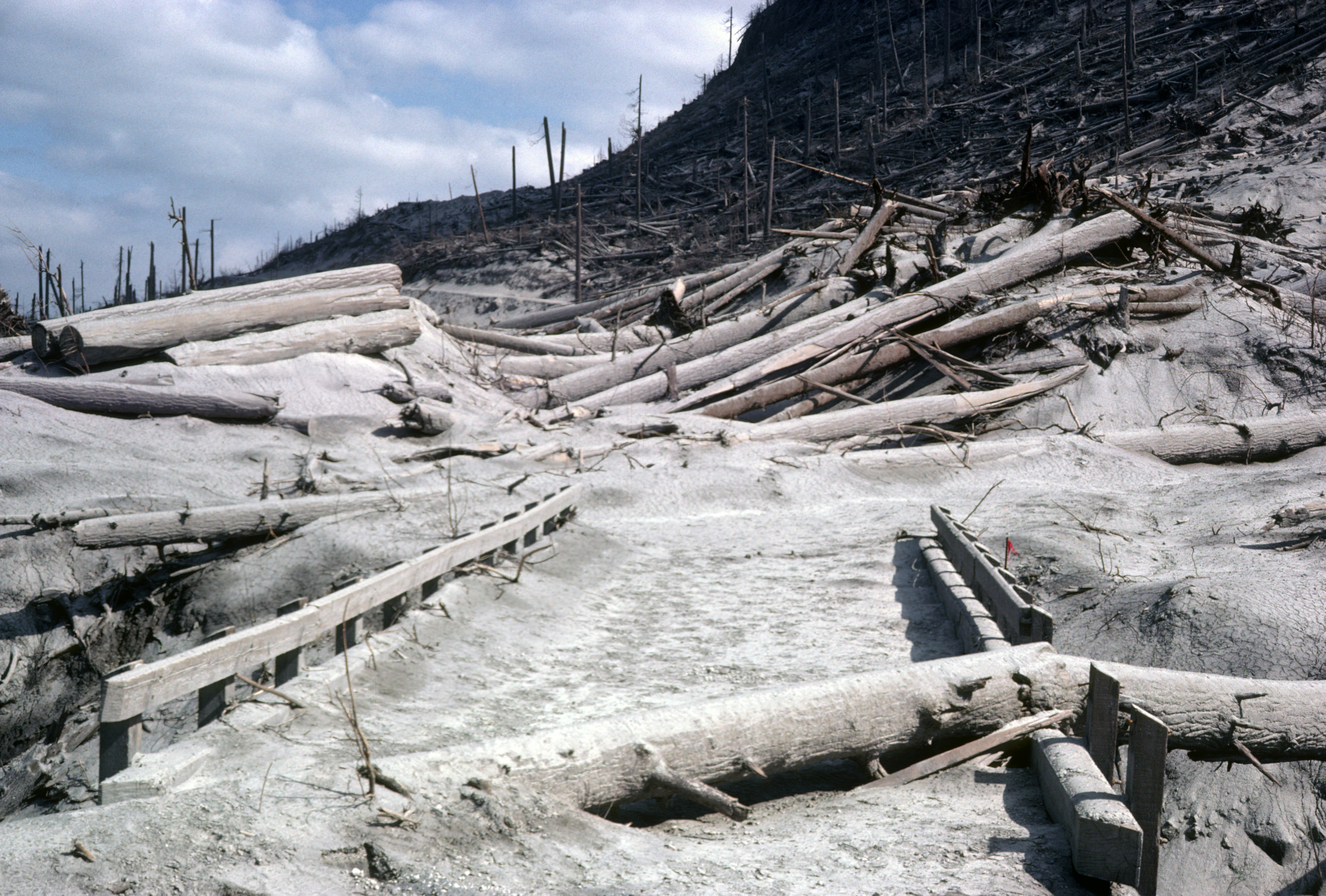 606 Mt St Helens NVM, ash covered landscape